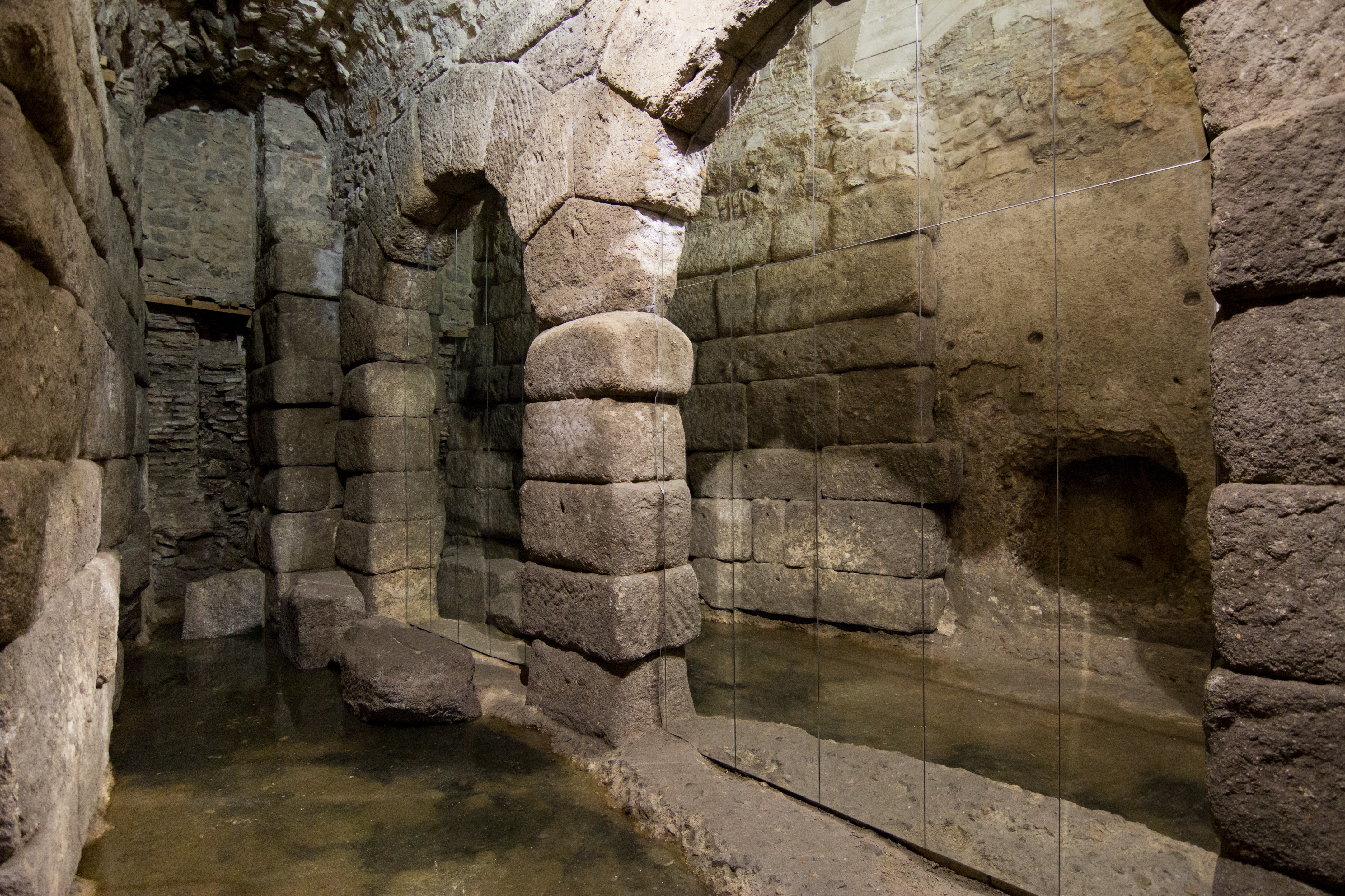 Cave of Heracles, Toledo, Spain.